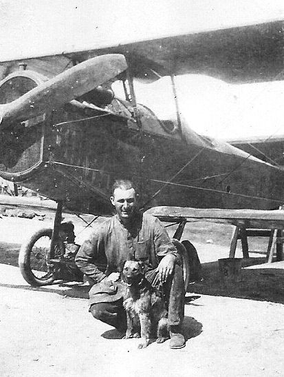 6th Aero Squadron squadron member posing with the squadron mascott dog next to a DH-4 at Luke Field, Hawaii